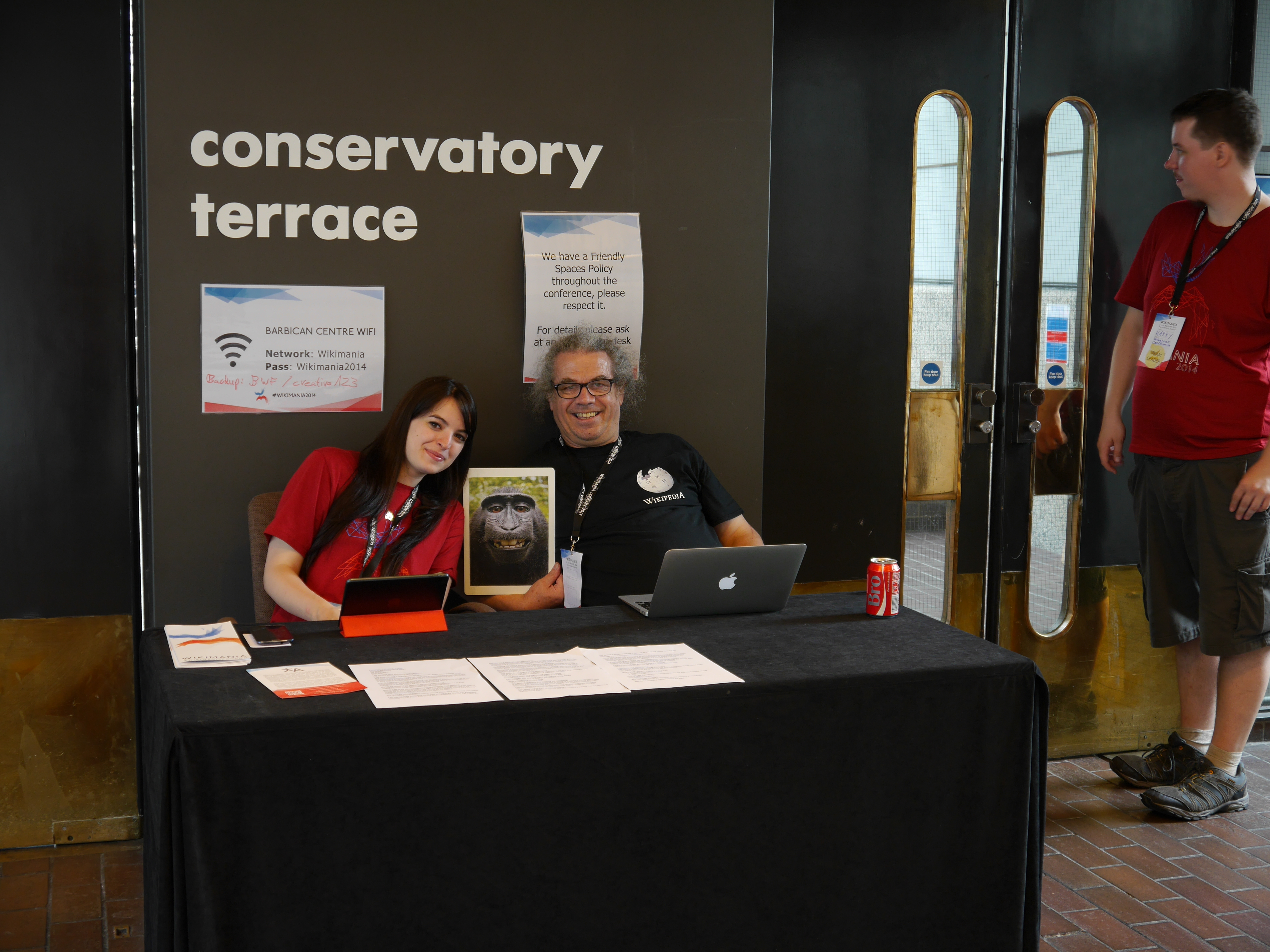 Aisha Brady and Fabian Tompsett with the monkey selife at the Wikimania 2014 helpdesk on level 4